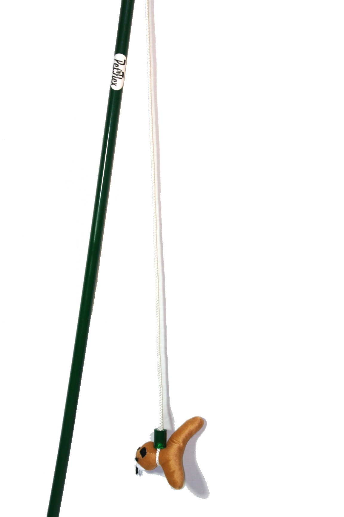 Flirt pole, dog exercise equipment used by trainers and those who want to but cannot walk their dog. This pole is offered by PetFlex.